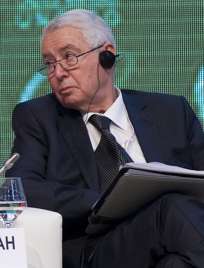 H.E. Ms. Tarja Kaarina Halonen, former President of the Republic of Finland and Co-Chair of the United Nations Secretary-General’s High-level Panel on Global Sustainability, and H.E. Mr. Abdelkader Bensalah, President of the Senate of Algeria